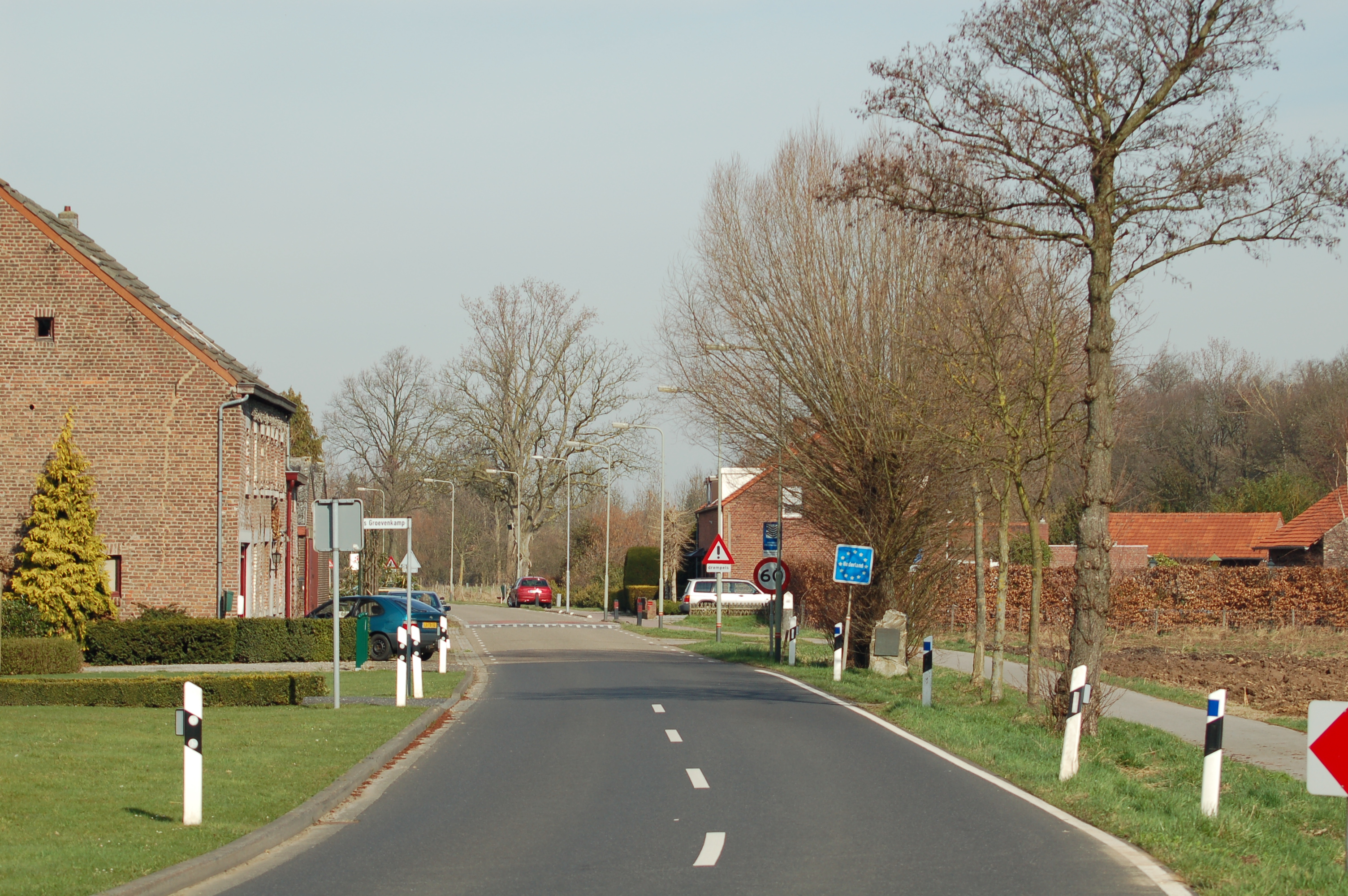 The most western point of Germany in Selfkant, Northrhine-Westphalia, at the street from Tüddern (D) to Susteren (NL)